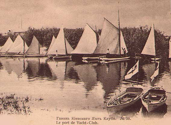 An old yaht club on the Trukhaniv Island in Kiev, Ukraine.